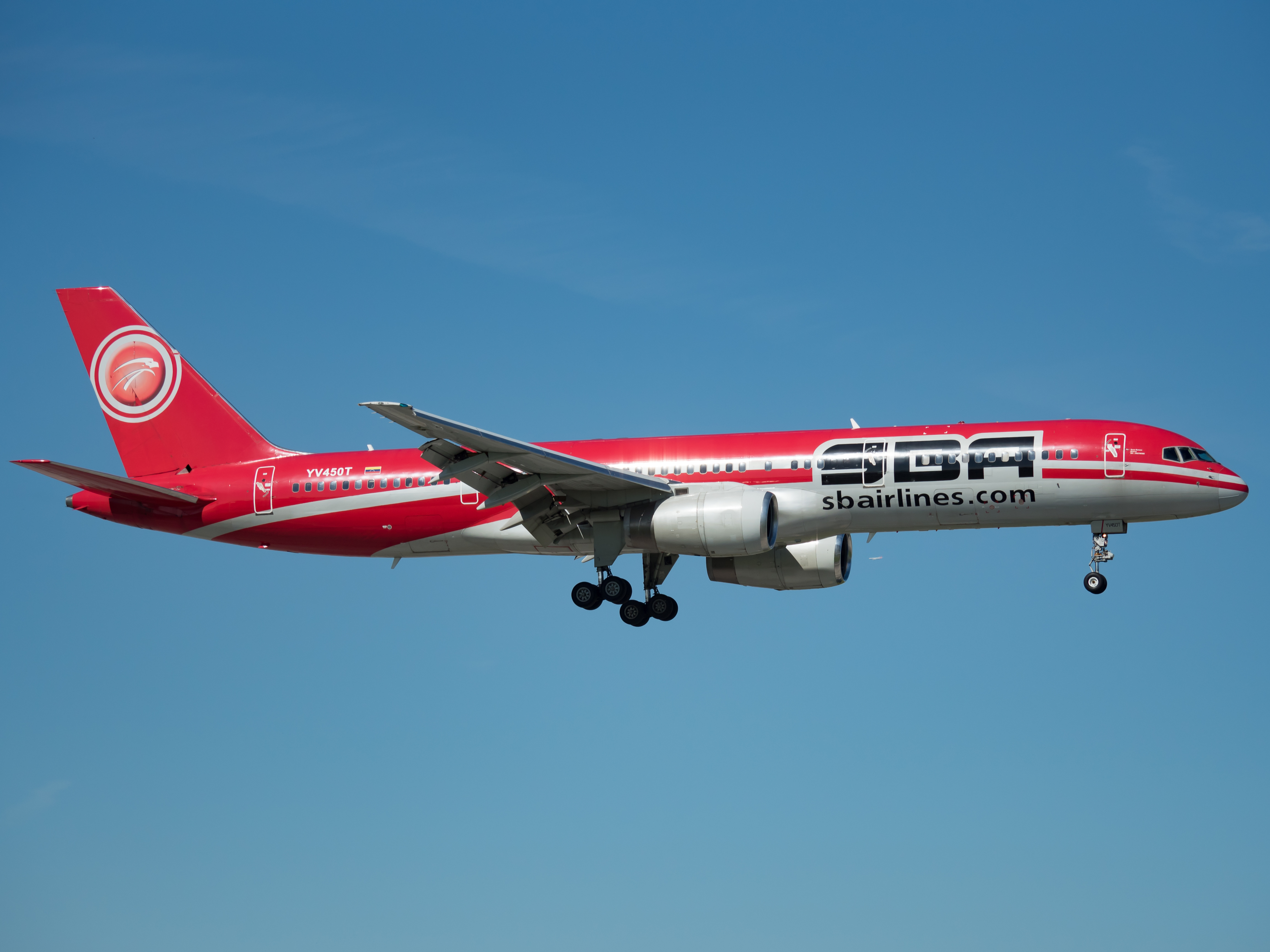 SBA Airlines Boeing 757-236 at Miami International Airport